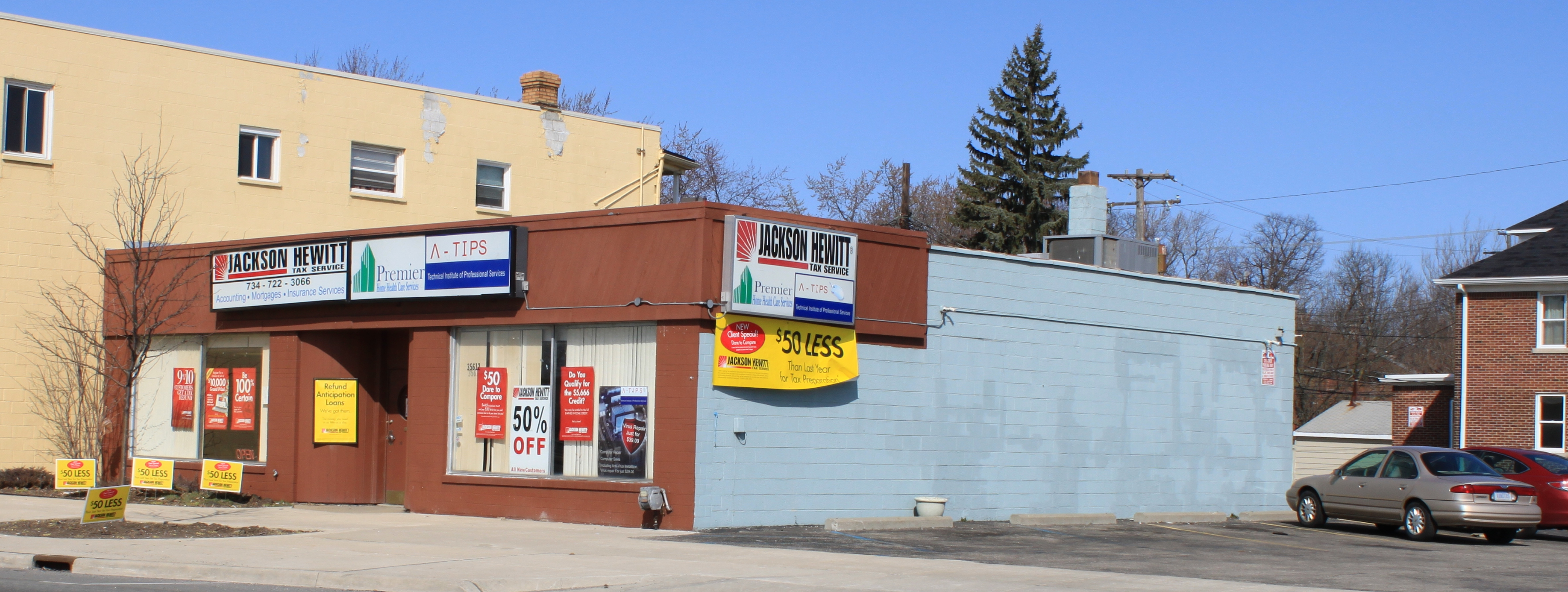 Jackson Hewitt tax service office, 35612 West Michigan Avenue, Wayne, Michigan